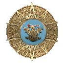 Star of the Mexican Order of the Aztec Eagle